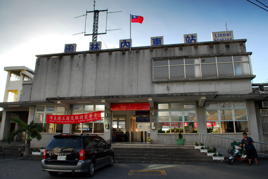 LinNei Station is a local train station of Taiwan's Western main rail line. It's the main station of LinNei Township, YunLin County.